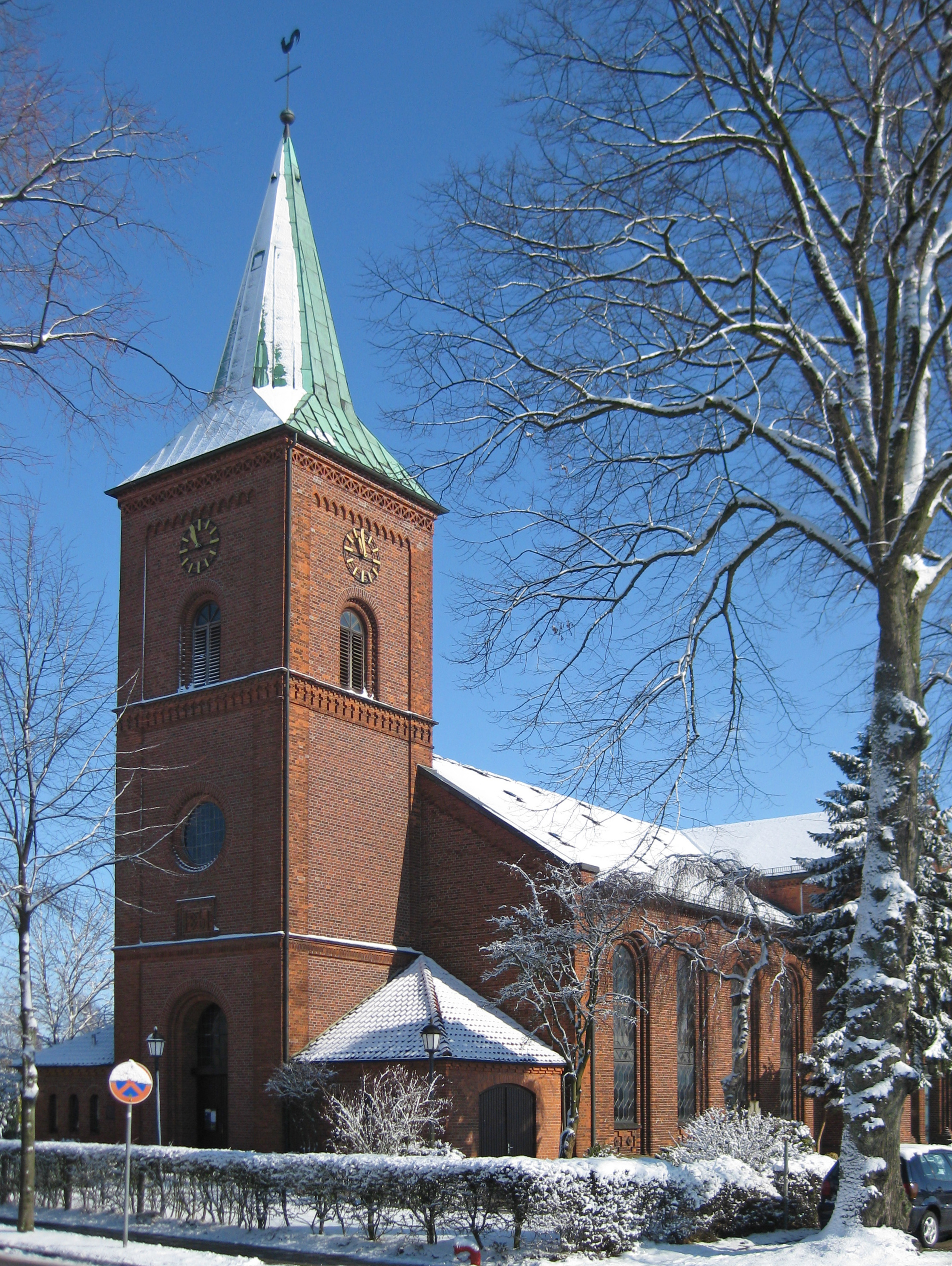 St. Peter's Church in Oyten (Lower Saxony / Germany) in February 2010.